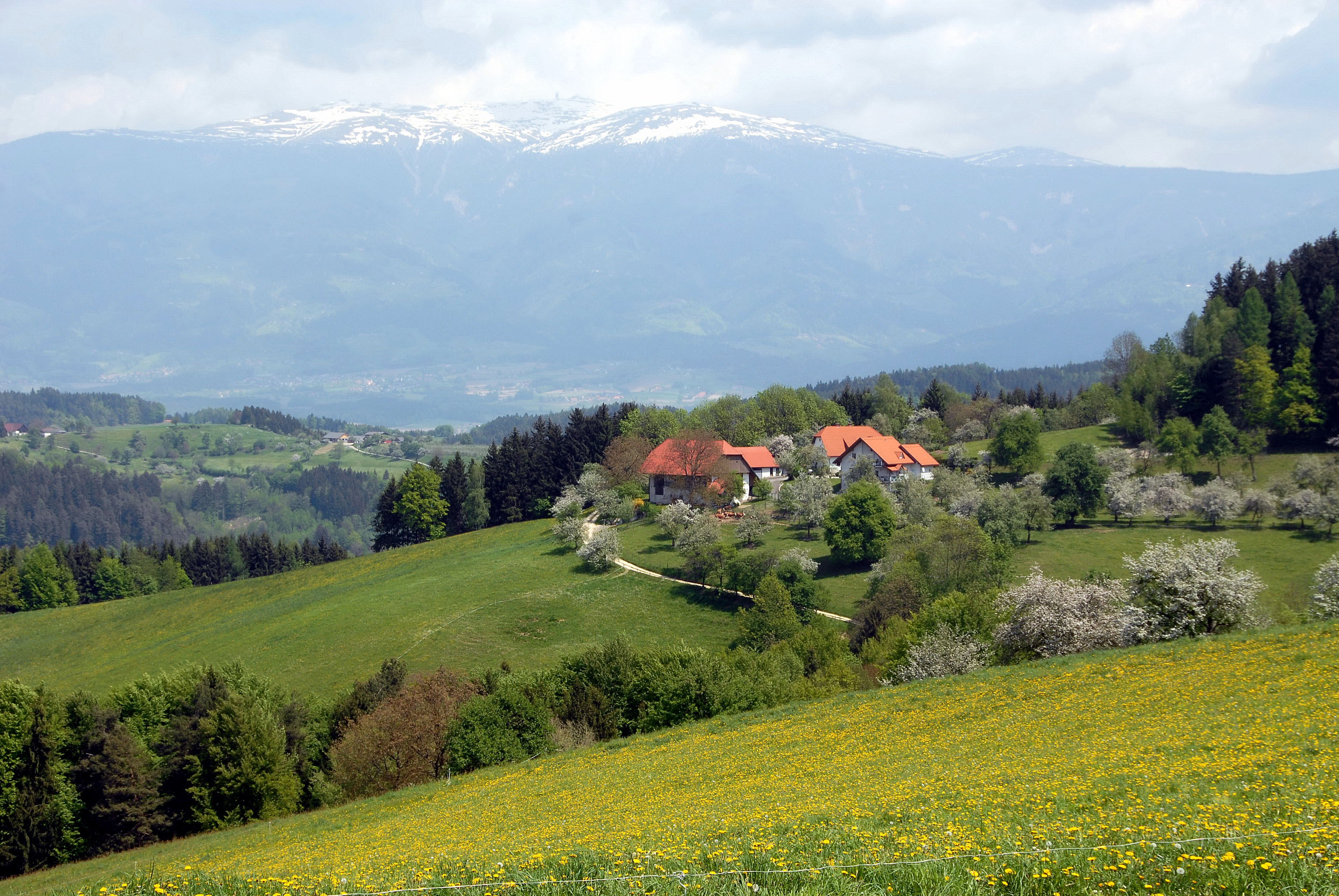 View from the locality Grutschen at Windisch Grutschen, the Lavant valley and the mountain Koralm, community Saint Paul in the Lavant valley, district Wolfsberg, Carinthia, Austria